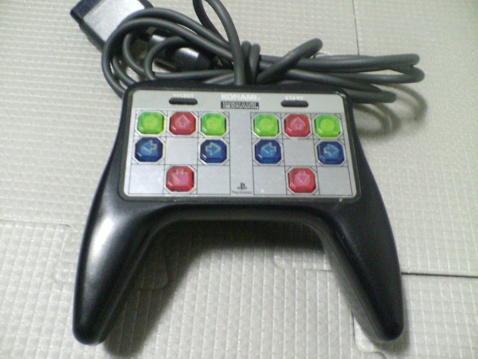 Controller for Dance Dance Revolution